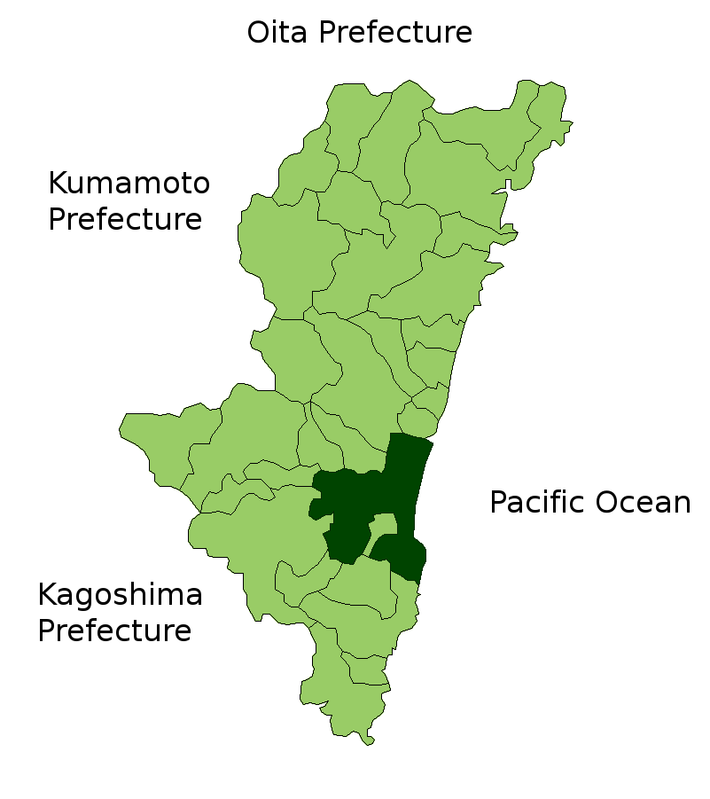 Map of Miyazaki Prefecture highlighting Miyazaki city. Borders of map as of July, 2006. (blank map used from [1]) See also Image:MiyazakiMapCurrent.png.